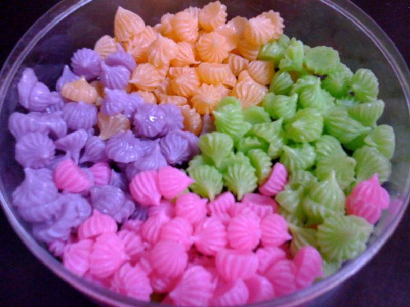 "Allure" Thai Dessert